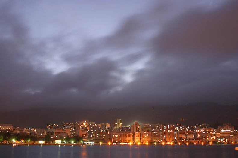 Gejiu and its lake, Yunnan, China.